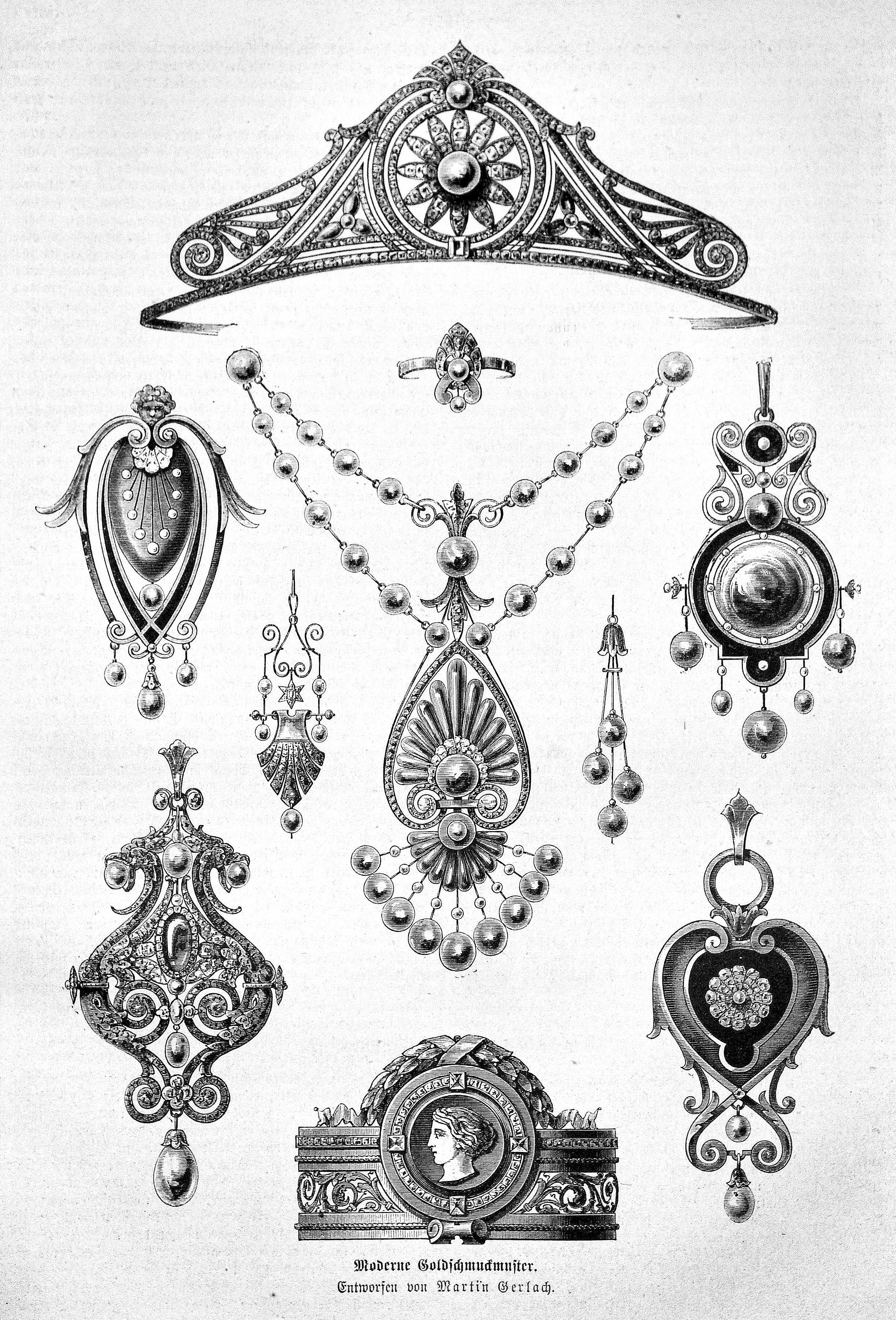 Modern golden jewellery, designed by Martin Gerlach.Image from page 373 of journal Die Gartenlaube, 1875.